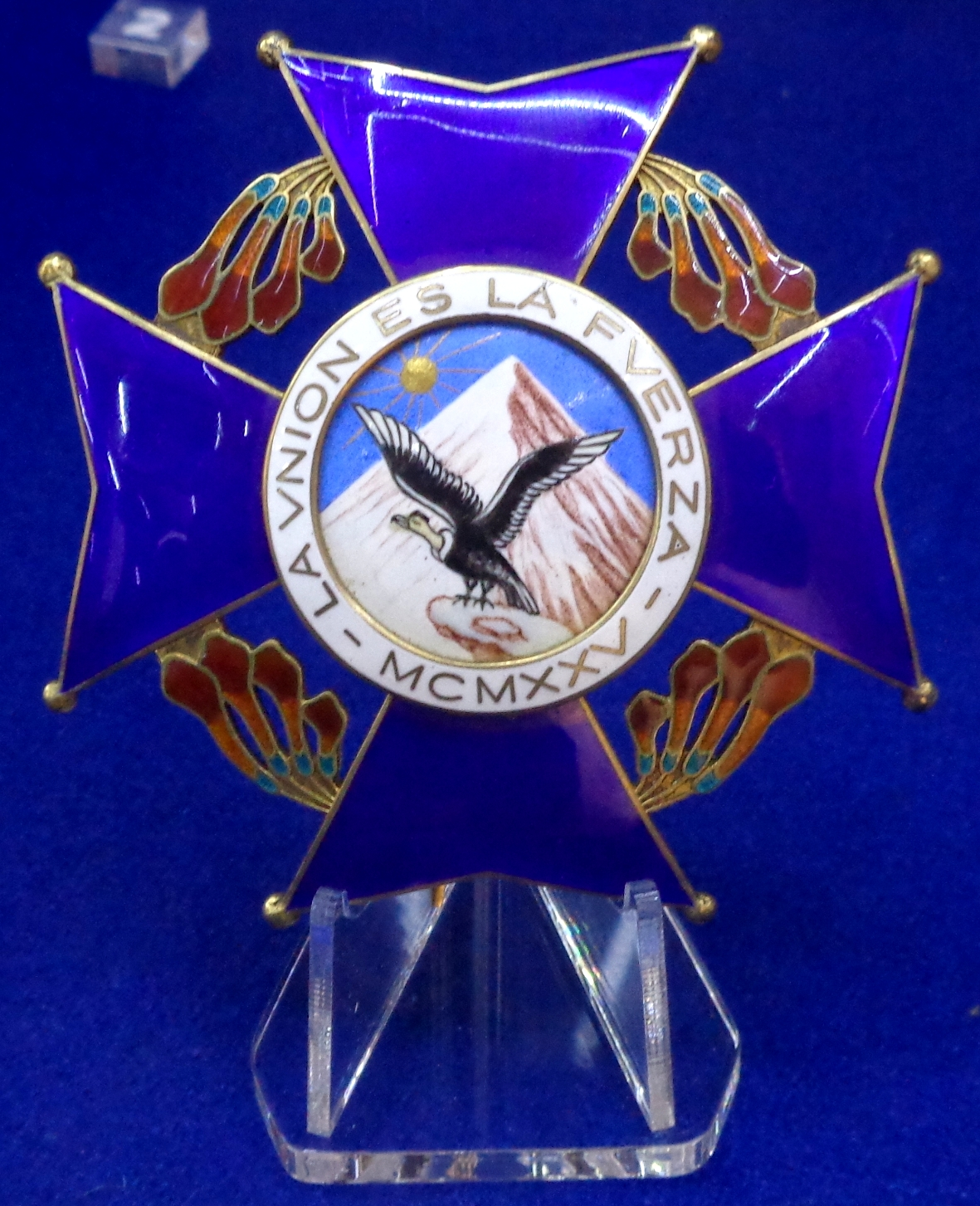 Order of the Condor of the Andes, star of Grand Cross. Bolivia. The exhibition of the Tallinn Museum of Orders of Knighthood, Estonia.